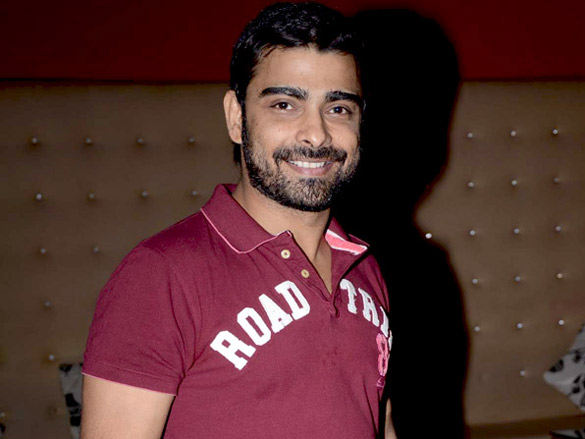 Abir Goswami at the the Launch party of 'Ammaji Ki Galli'